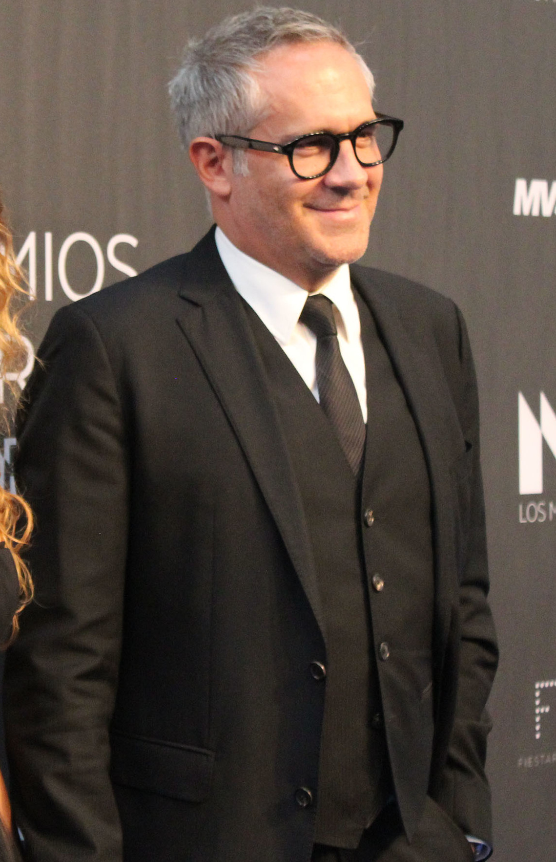 Arath de la Torre at the 2019 Metropolitan Theater Awards